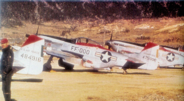 F-51 Mustangs of the 67th Fighter-Bomber Squadron, Korea, 1952 Source: USAF Plus Fifteen, A photo History. Photo source given as USAF Historical Research Agency, Maxwell AFB, Alabama